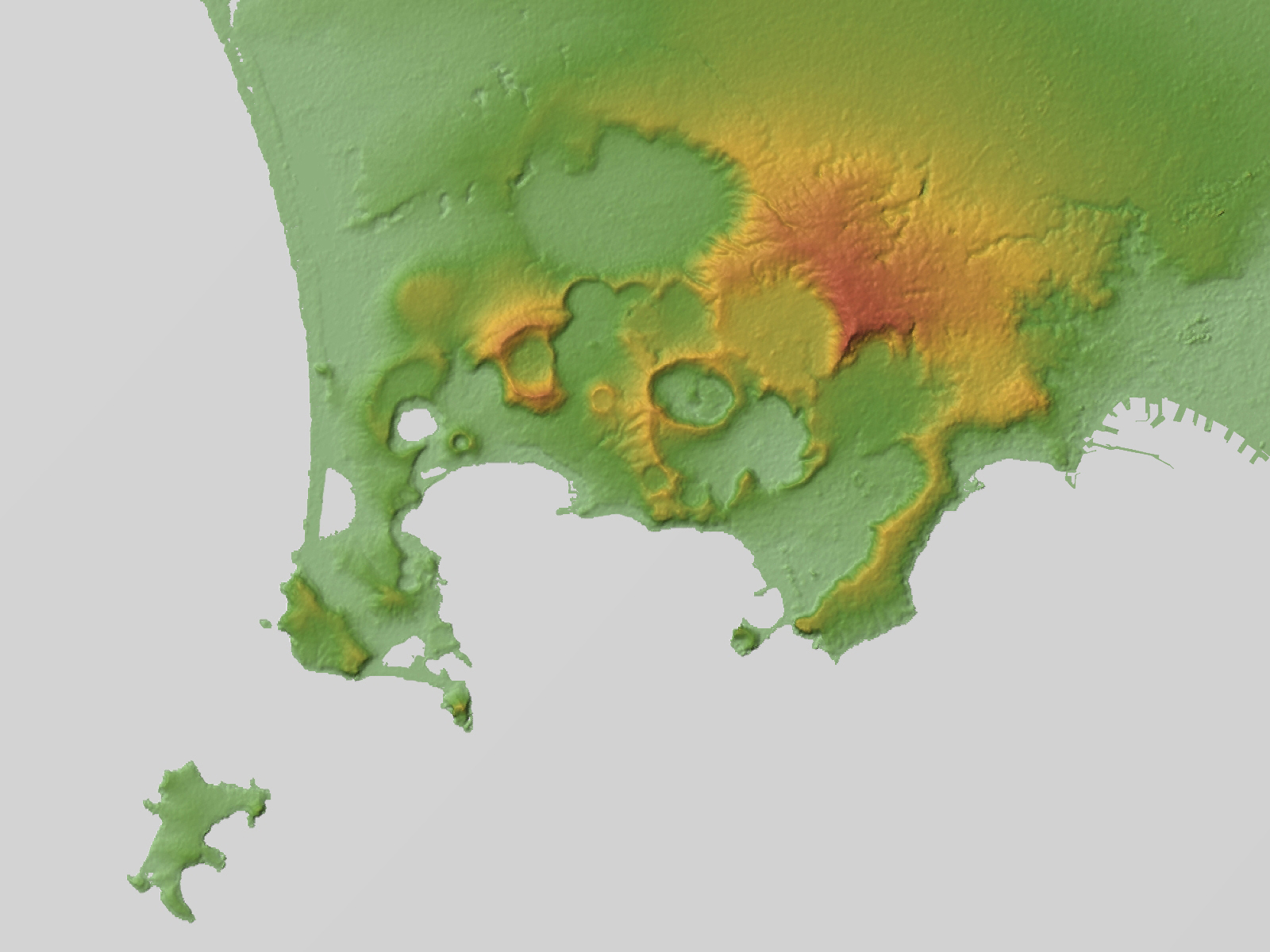 Phlegraean Fields in Province of Naples, Italy.